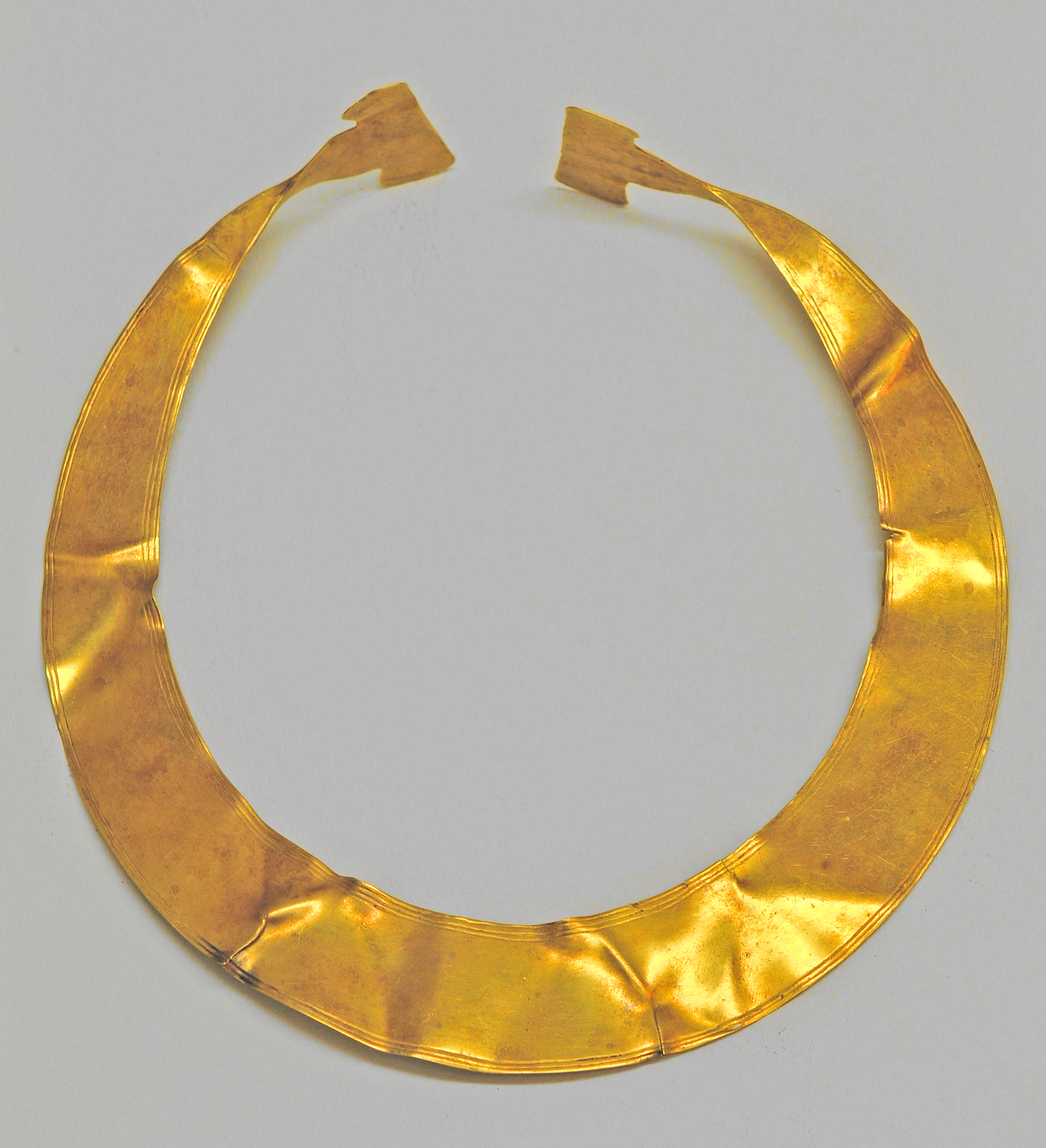 Gold lunula (plural: lunulae) is a distinctive type of early Bronze Age necklace shaped like a crescent moon. Gold Lunula are found most commonly in Ireland, but there are moderate numbers in other parts of Europe as well, particularly Great Britain. This Gold lunula is found during April 1911 in Schulenburg, Lower Saxony, Germany. Her size is 171 x 176x 0,5 mm. She weighs 117,7 grams and consist of 94 % gold.